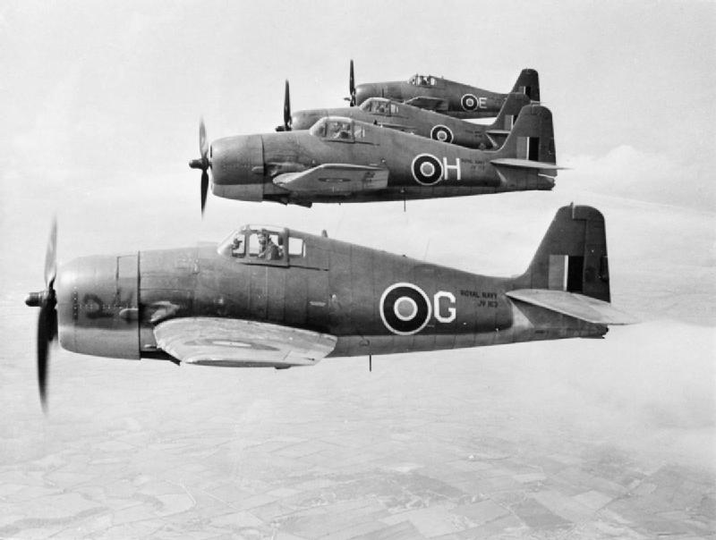 Royal Navy Grumman Hellcat F.I fighters of No. 1840 Naval Air Squadron based at oyal Naval Air Station Eglinton, Northern Ireland, 23 June 1944. 80 % or the squadron's pilots were Dutch.